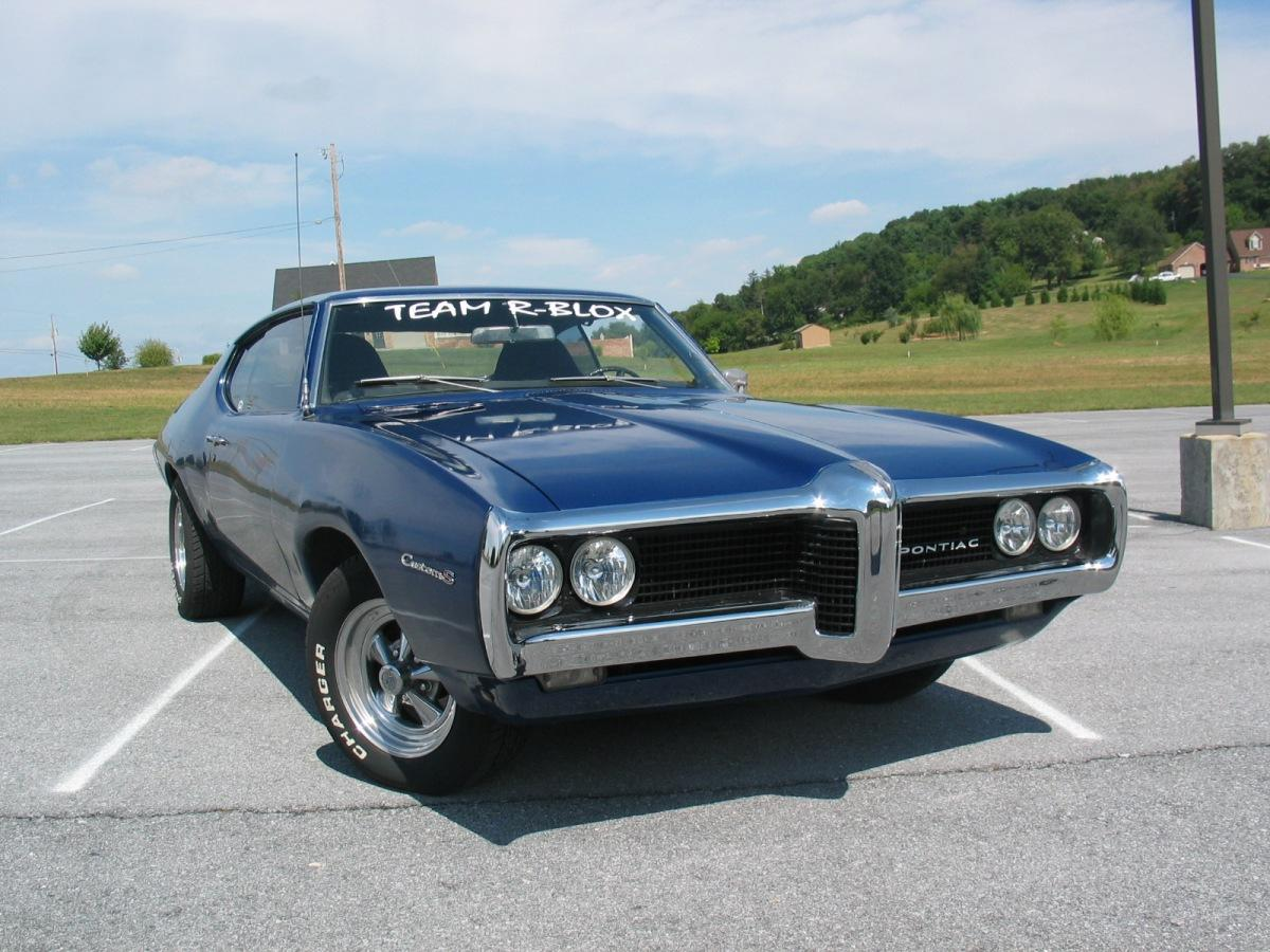 This is a picture of my car (1969 Pontiac Custom S Sprint) that was taken by me. This is intended to be used under the Custom S page.